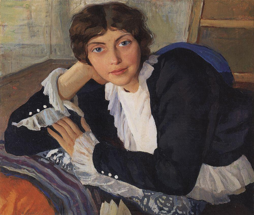 portrait-of-lola-braz